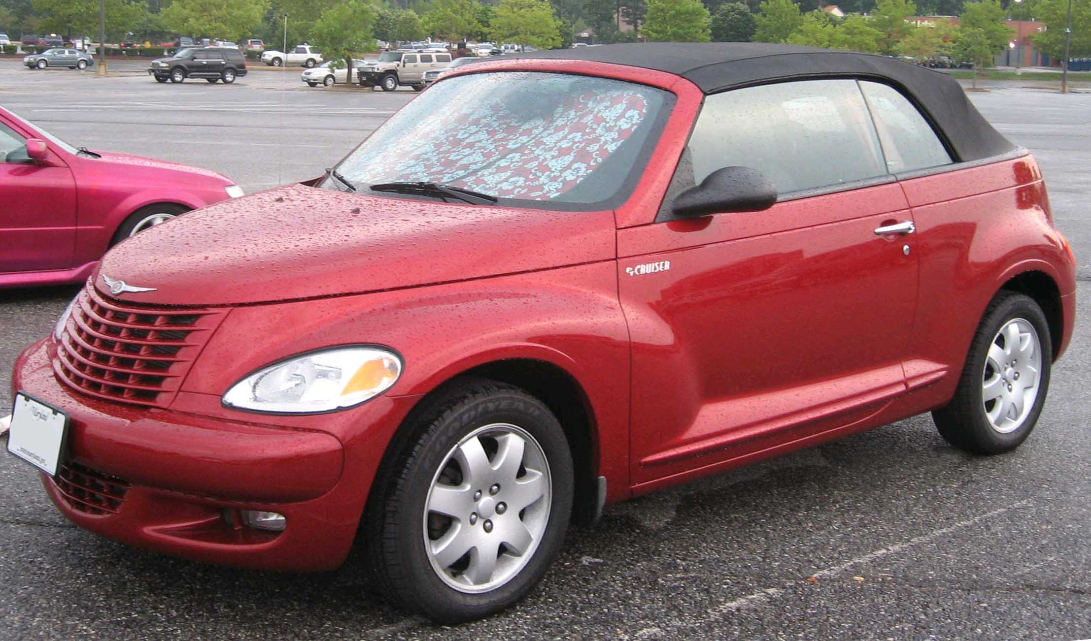 2005 Chrysler PT Cruiser photographed in Waldorf, Maryland, USA.